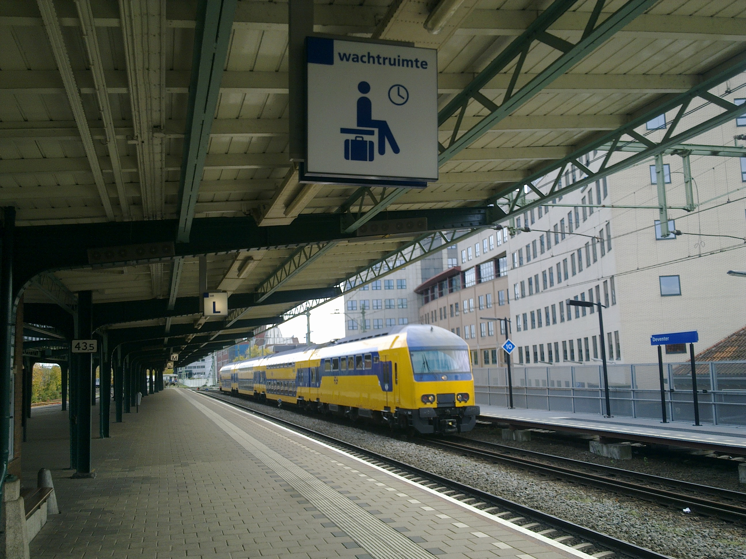 NID 7527 in Deventer (NL) central station on 26 Oct 2012. This type of train is not in the timetable 2012 for Deventer included.